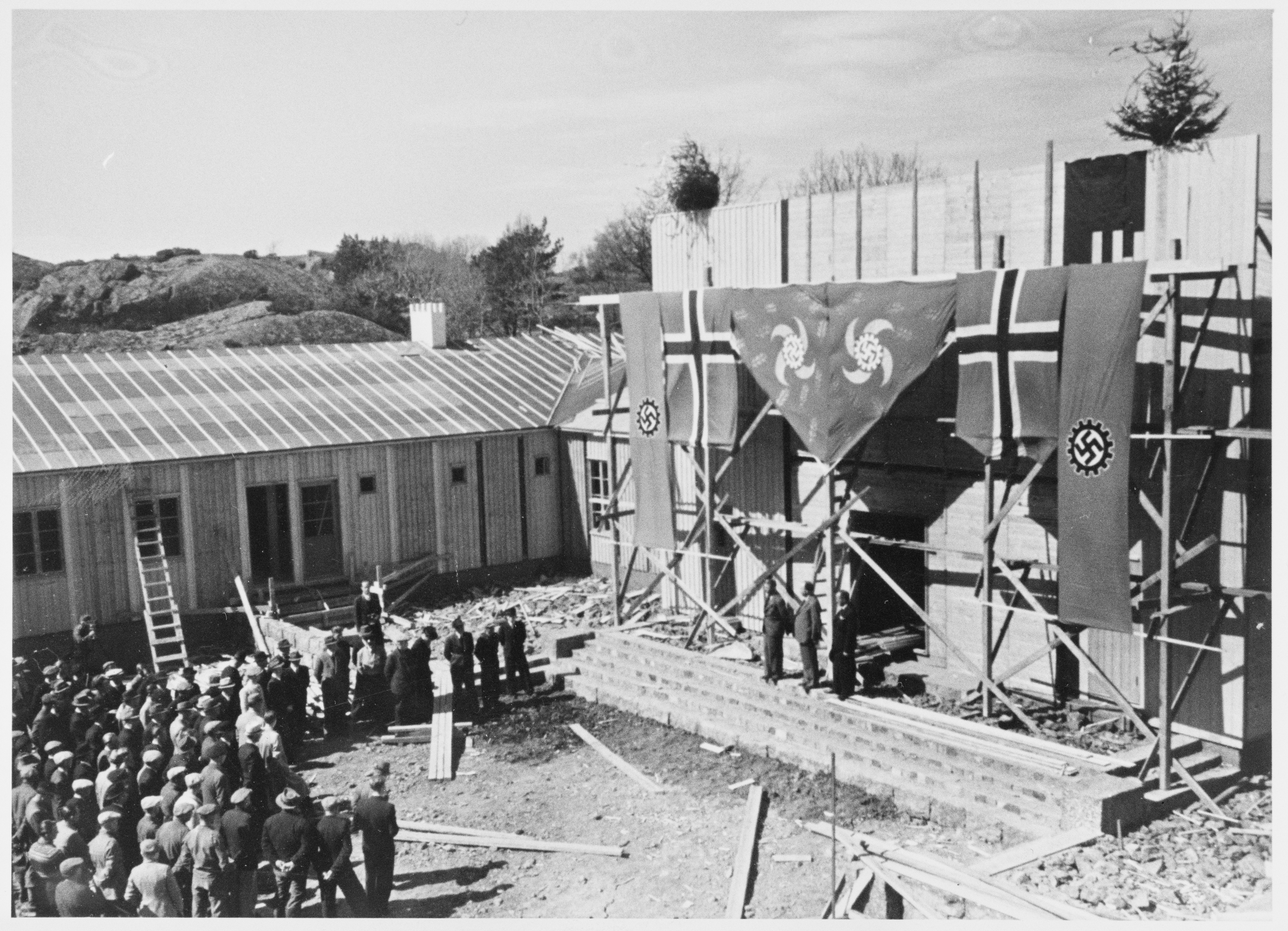 Topping out ceremony for a Soldatenheim, boarding and club houses for German soldiers in Stavern, Norway 1941, during the occupation of Norway by Nazi Germany during World War II. The flags represent Deutsche Arbeitsfront, Norway, and Kraft durch Freude.